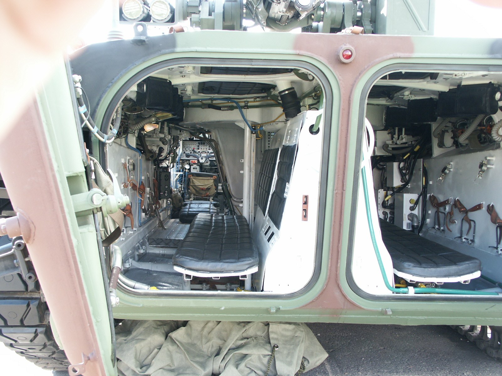 Polish BWP-1 (BMP-1) modernization offer with RCWS-30 turret